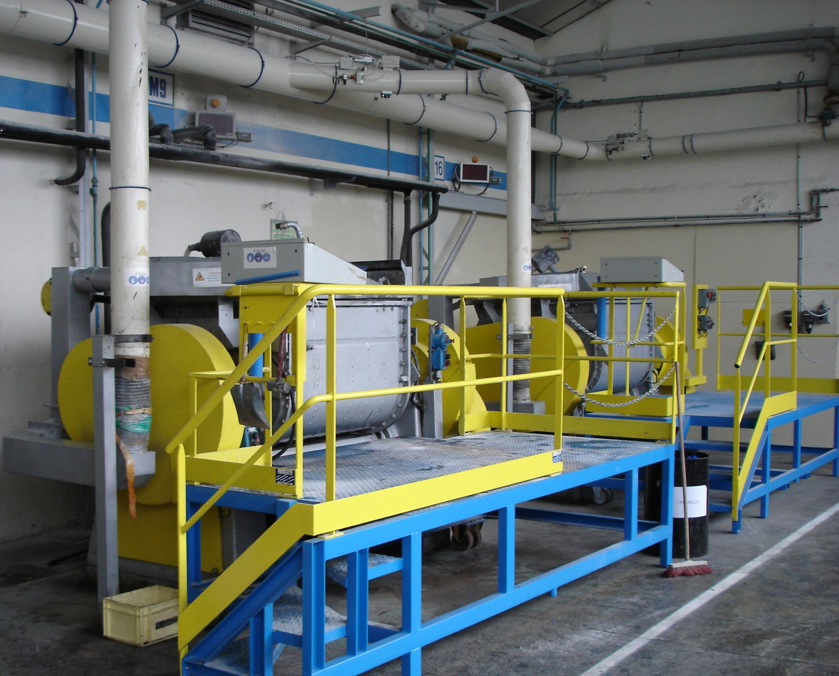 Two Z blade kneaders, capacity about 2,000 L. Used for batch production (rubber, epoxy sealants...).